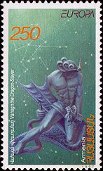 Stamp of Armenia